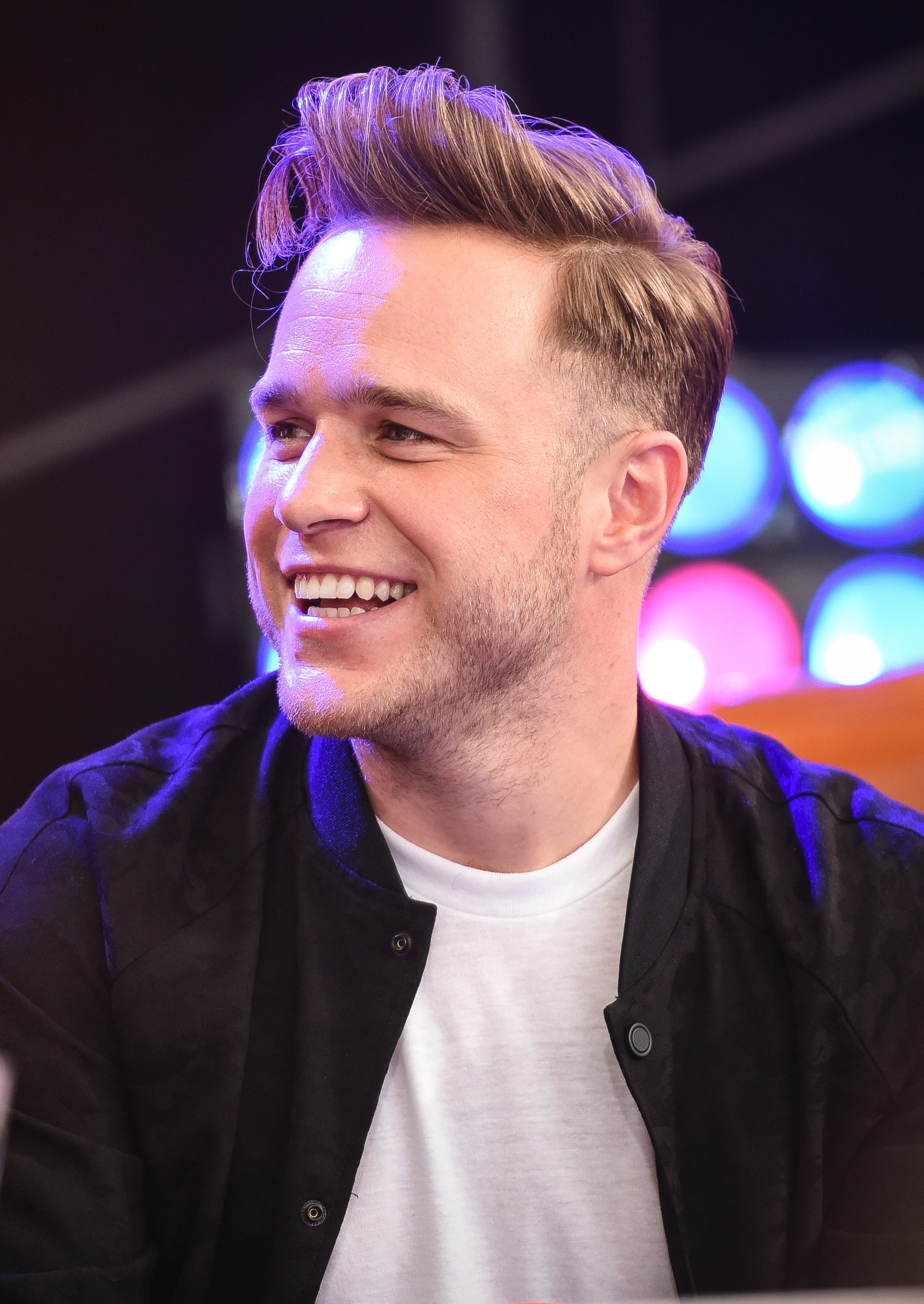 British singer Olly Murs at the SWR3 New Pop Festival 2017